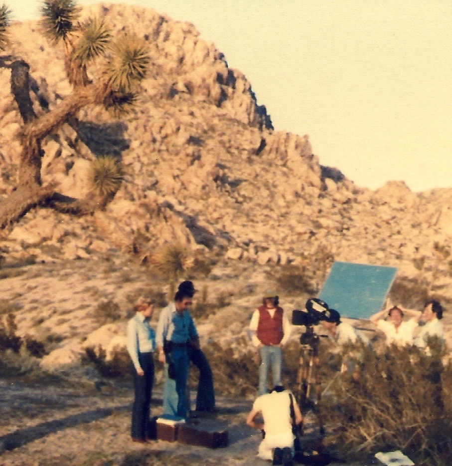 6-person movie crew in the process of filming a scene from the production of 'Runaway Nightmare' in the Mojave desert, California.